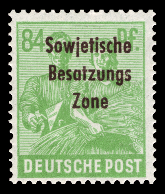 series of stamps of the Soviet occupation zone, with overprint Ausgabepreis: 84 Pfennig First Day of Issue / Erstausgabetag: 3. Juli 1948 Michel-Katalog-Nr: 197 (Alliierte Besatzung - Sowjetische Zone - Allgemeine Ausgaben)